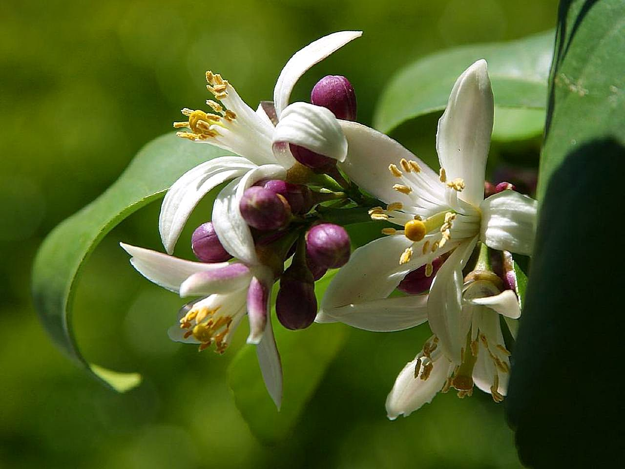 Image title: Flowers blossoms Image from Public domain images website